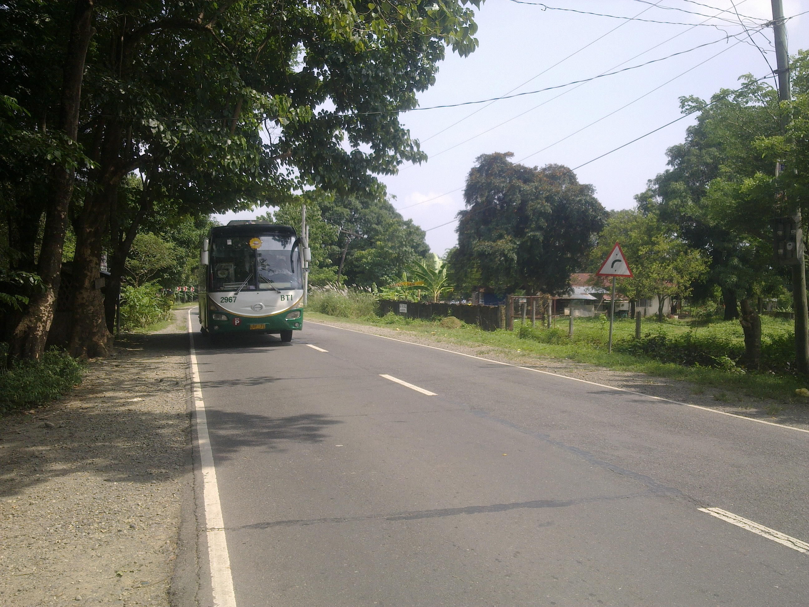 Baliwag Transit Inc en route to San Quintin, Pangasinan